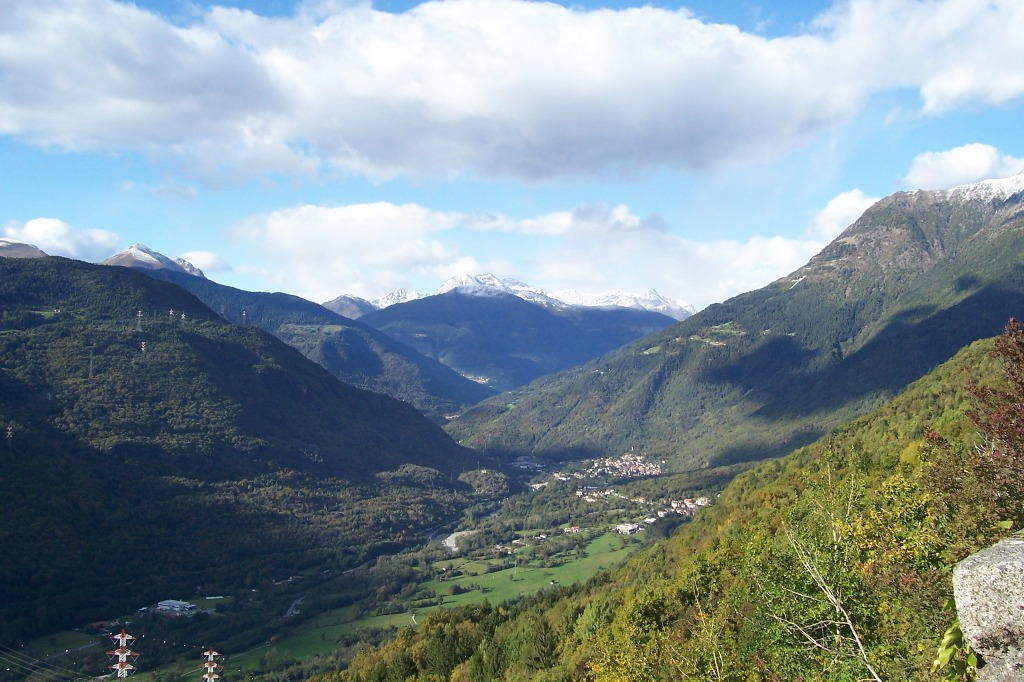 Rino, Val Camonica